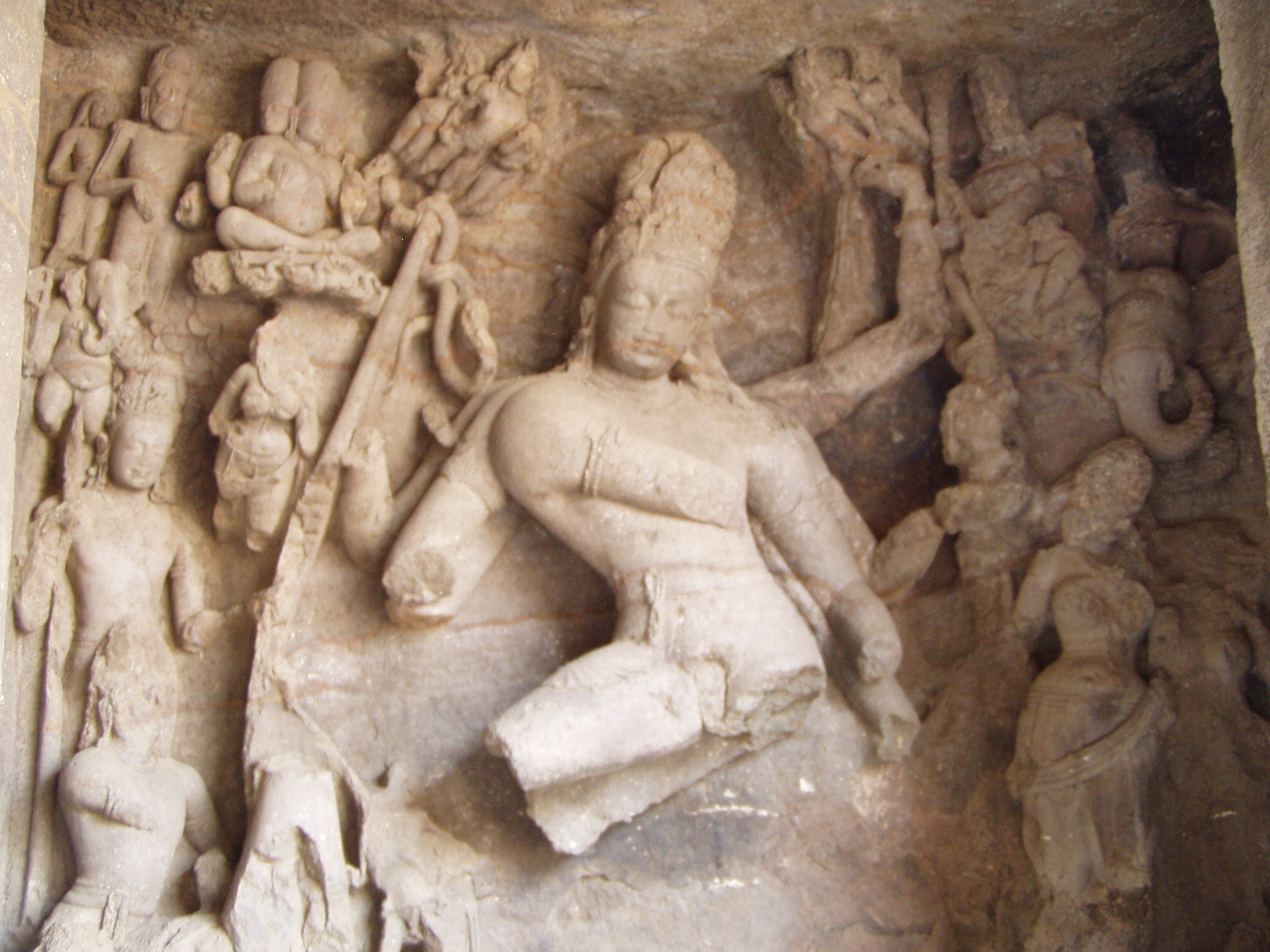 A panel with Nataraja (dancing form of Lord Shiva) in the main cave of Elephanta caves complex.